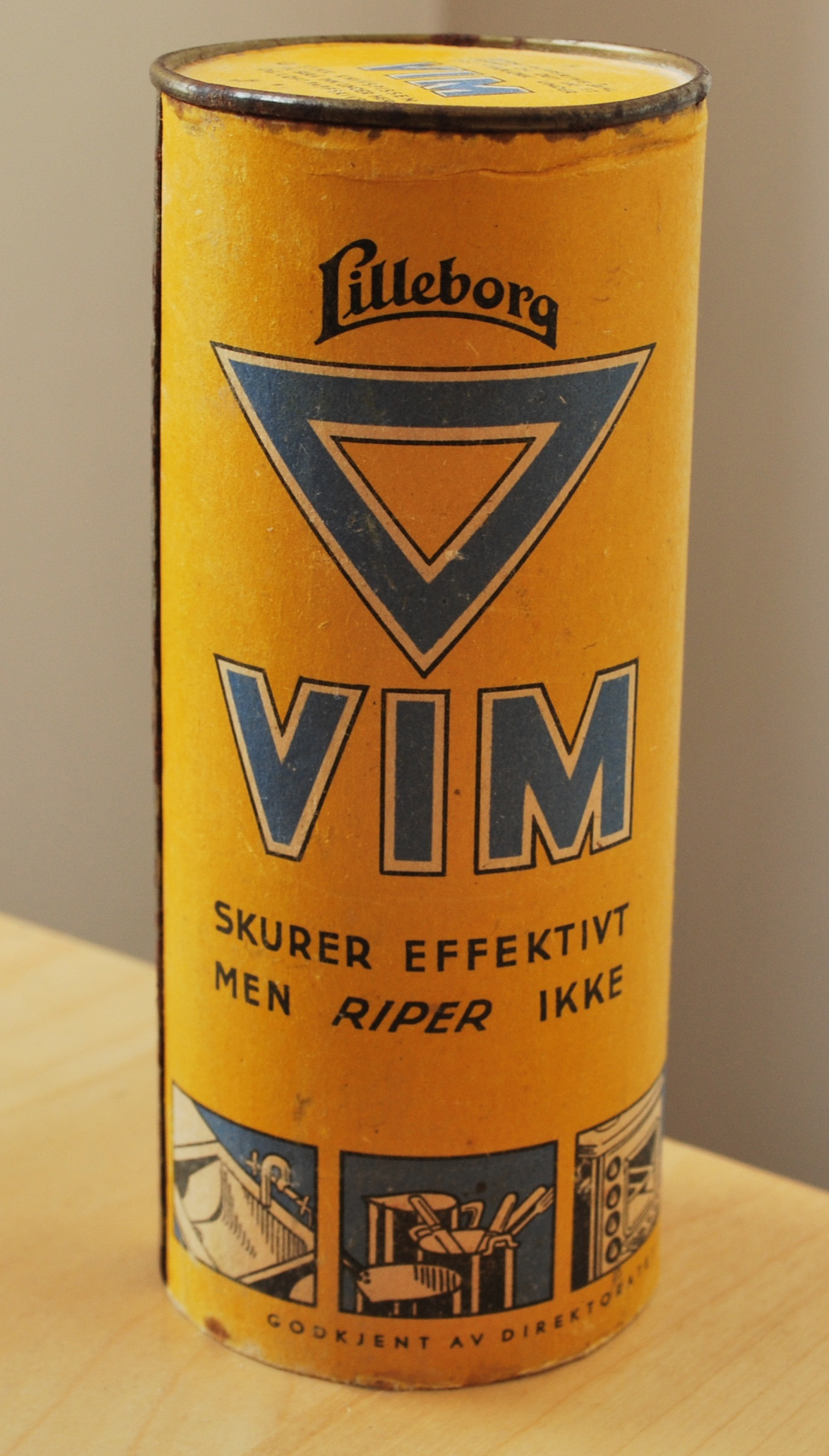 Can of VIM washing powder from Norway. Unknown age.